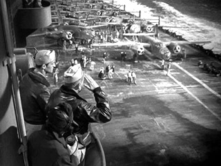 Cropped screenshot from the film Thirty Seconds Over Tokyo.